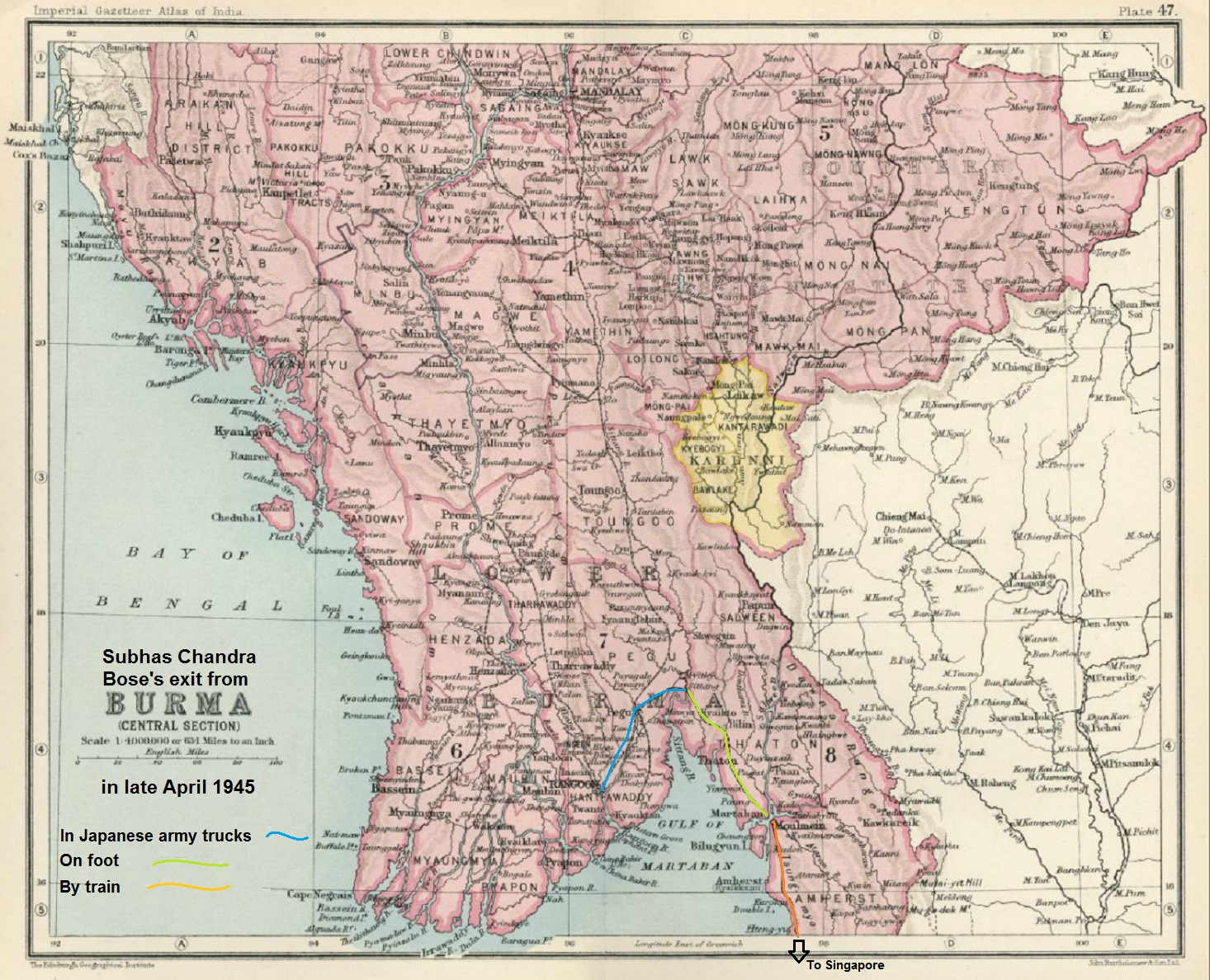 Map of Central Burma from the Imperial Gazetteer of India, 1909, annotated by me, Fowler&fowler (talk) 13:05, 14 November 2013 (UTC), to show the route taken by Indian nationalist Subhas Chandra Bose and his Indian National Army (INA) group of 500 from Rangoon to Moulmein. At Moulmein, Bose, his party, and another INA group of 500, boarded various Japanese trains on the Death Railway (which had been constructed by British, Australian, and Dutch prisoners of war) to arrive in Bangok in the first week of May 1945.